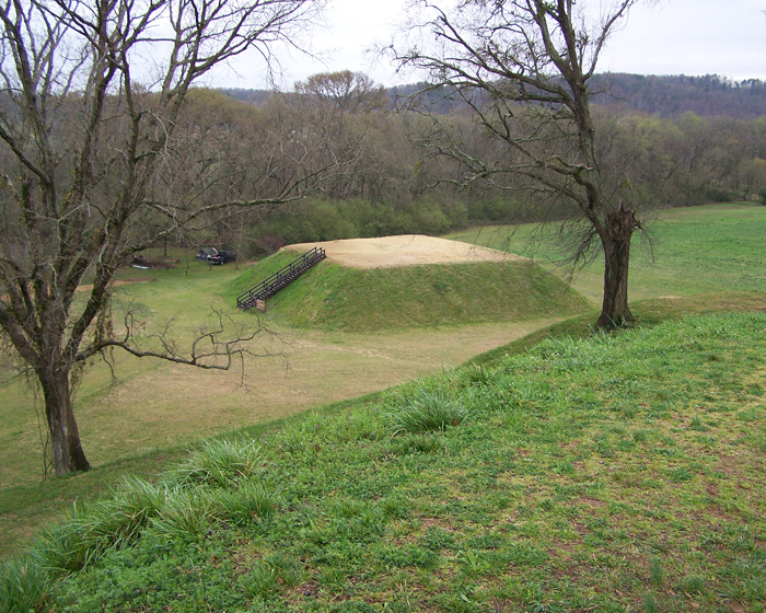 A photo of Mound C at Etowah Mounds as seen from Mound A. Site of the discovery of the Etowah plates.